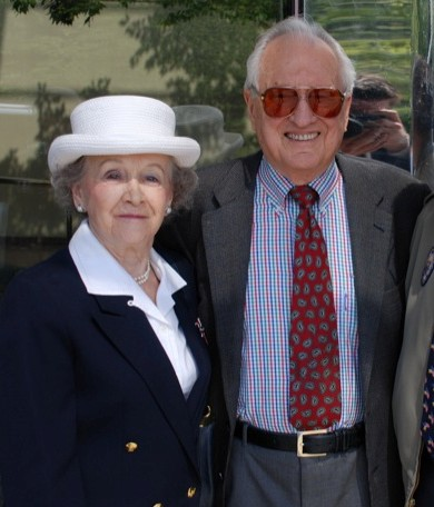 Former Alaska Governor Walter Hickel and his wife, Ermalee, outside the Egan Center in Anchorage, Alaska.